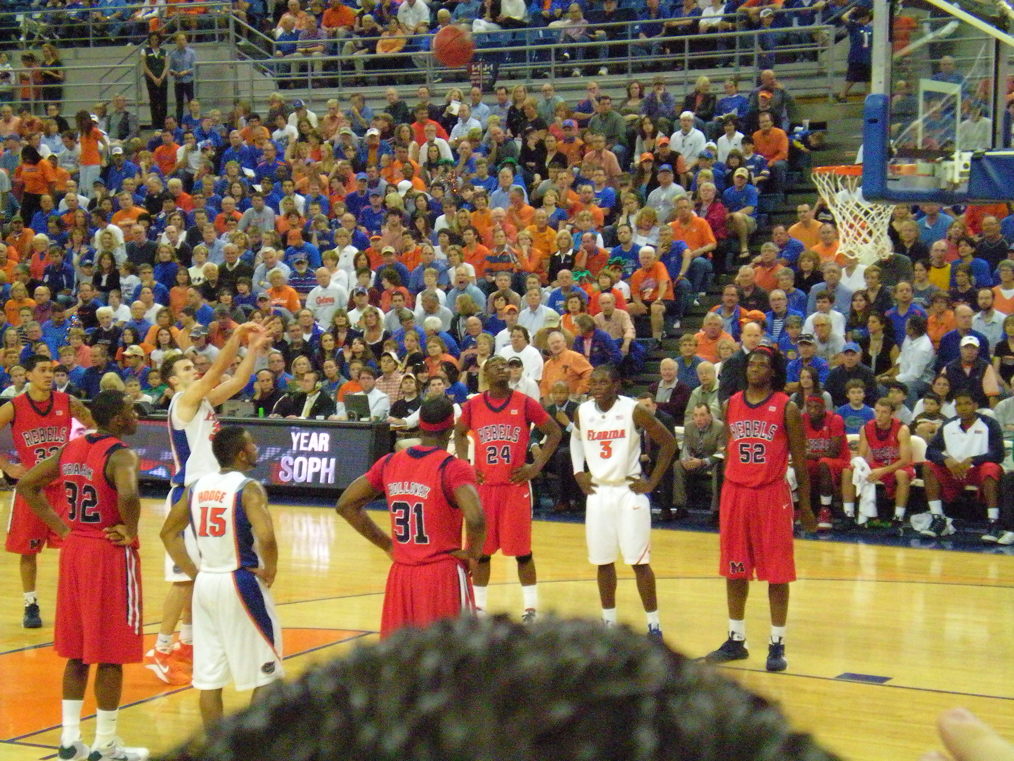 Nick Calathes shooting a Free-Throw vs. Ole Miss